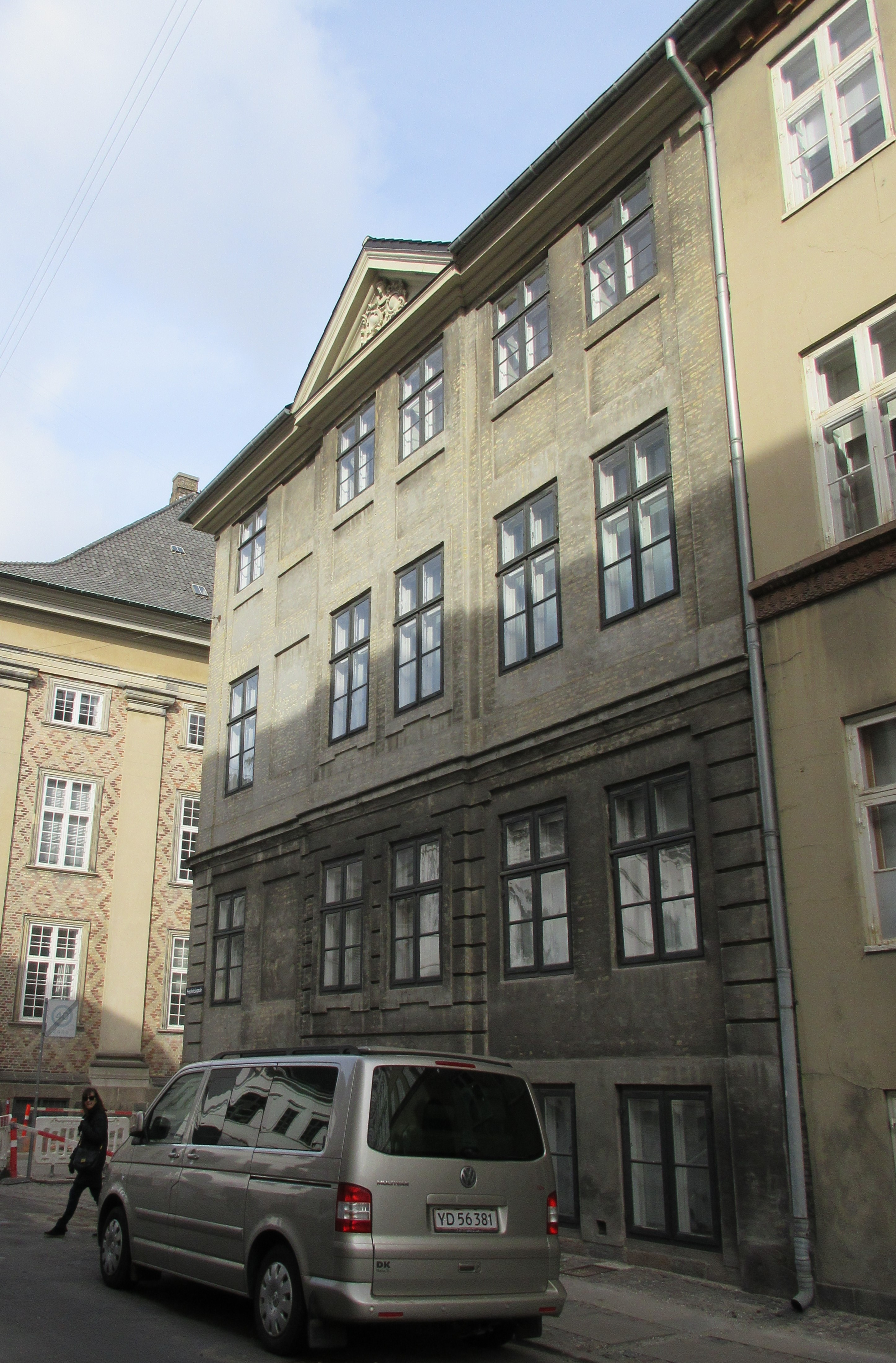 Titkens Gård as seen from Fredericiagade in Copenhagen, Denmark